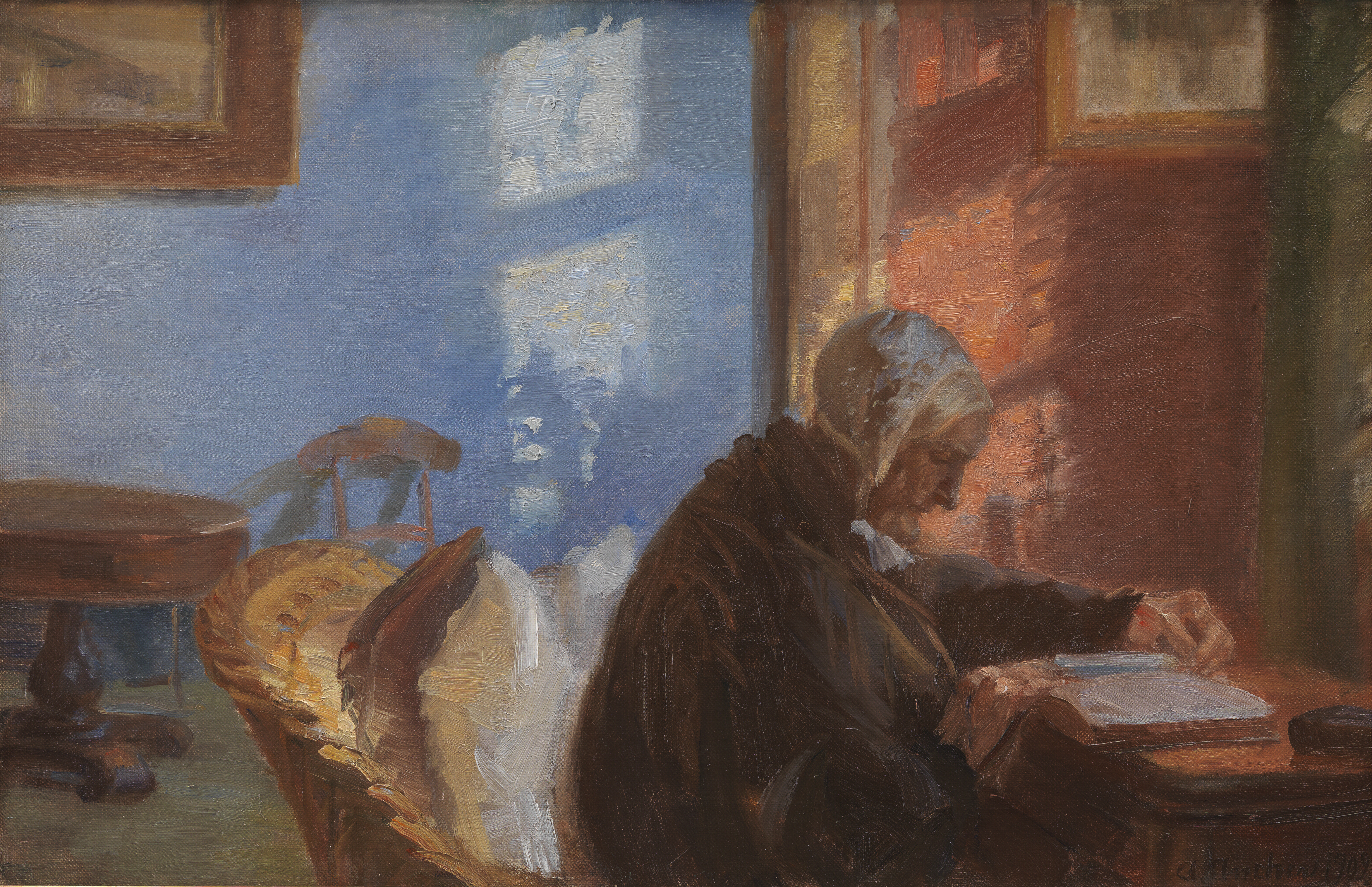 Anna Ancher (1859-1935), The Artist's Mother Ane Hedvig Brøndum in the Blue Room, 1909